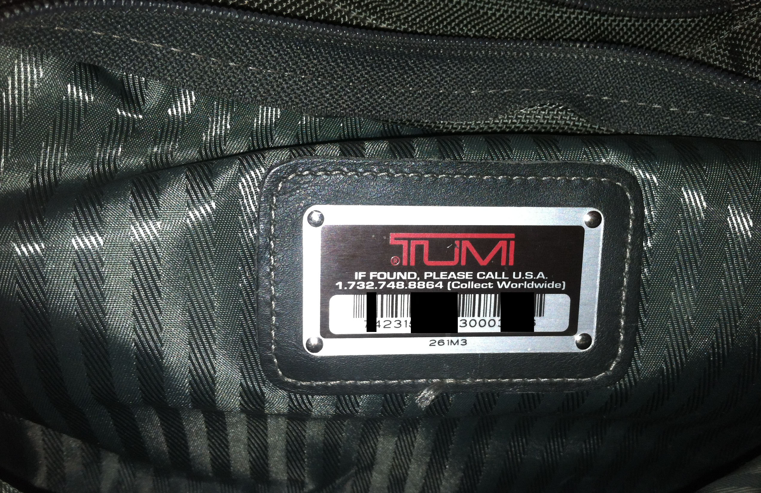 Tumi security tag